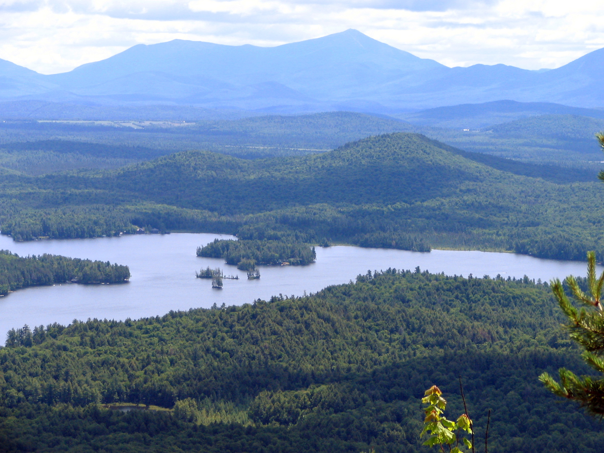 View from Saint Regis Mountain of Upper Saint Regis Lake with the High Peaks in the background. Taken by User:Mwanner, 2 July, 2007.